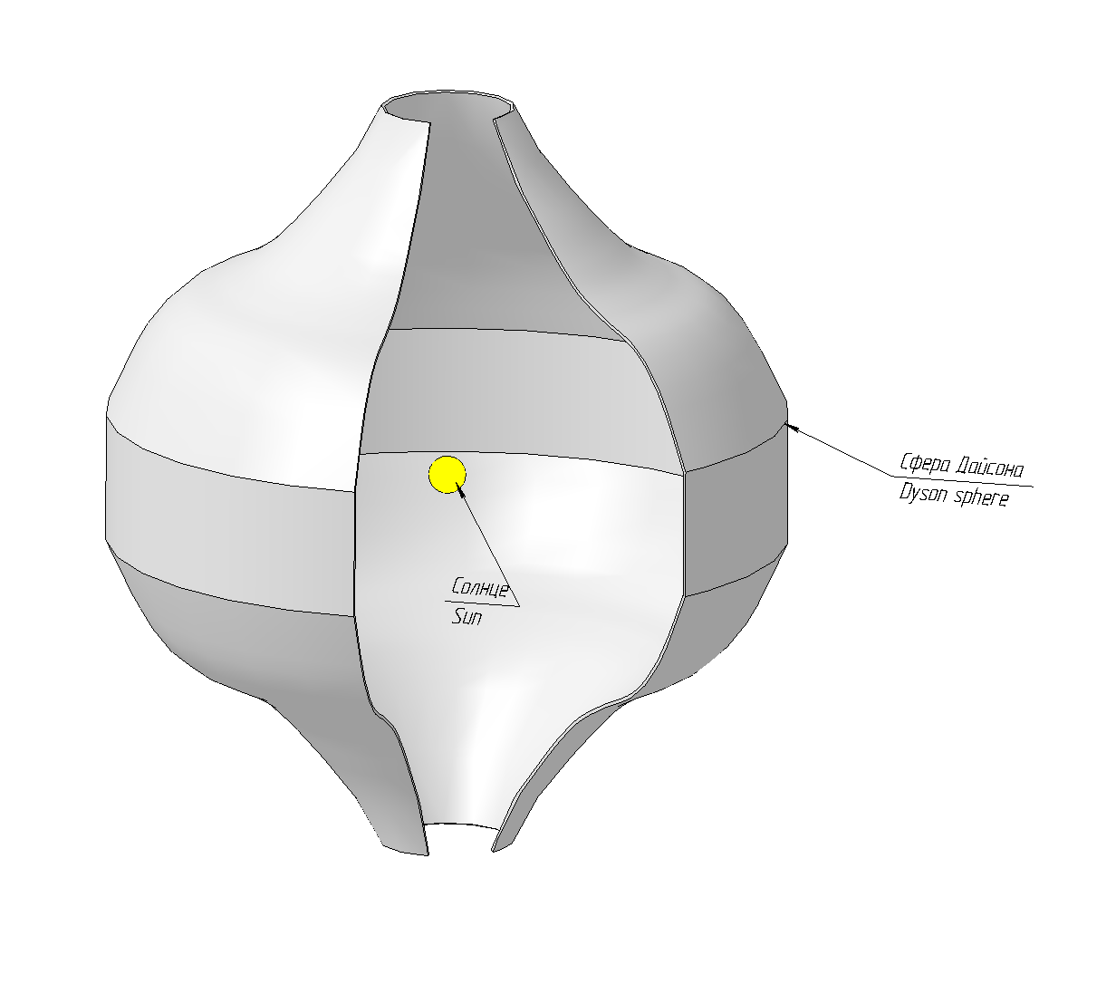 Model of Dyson ring-world